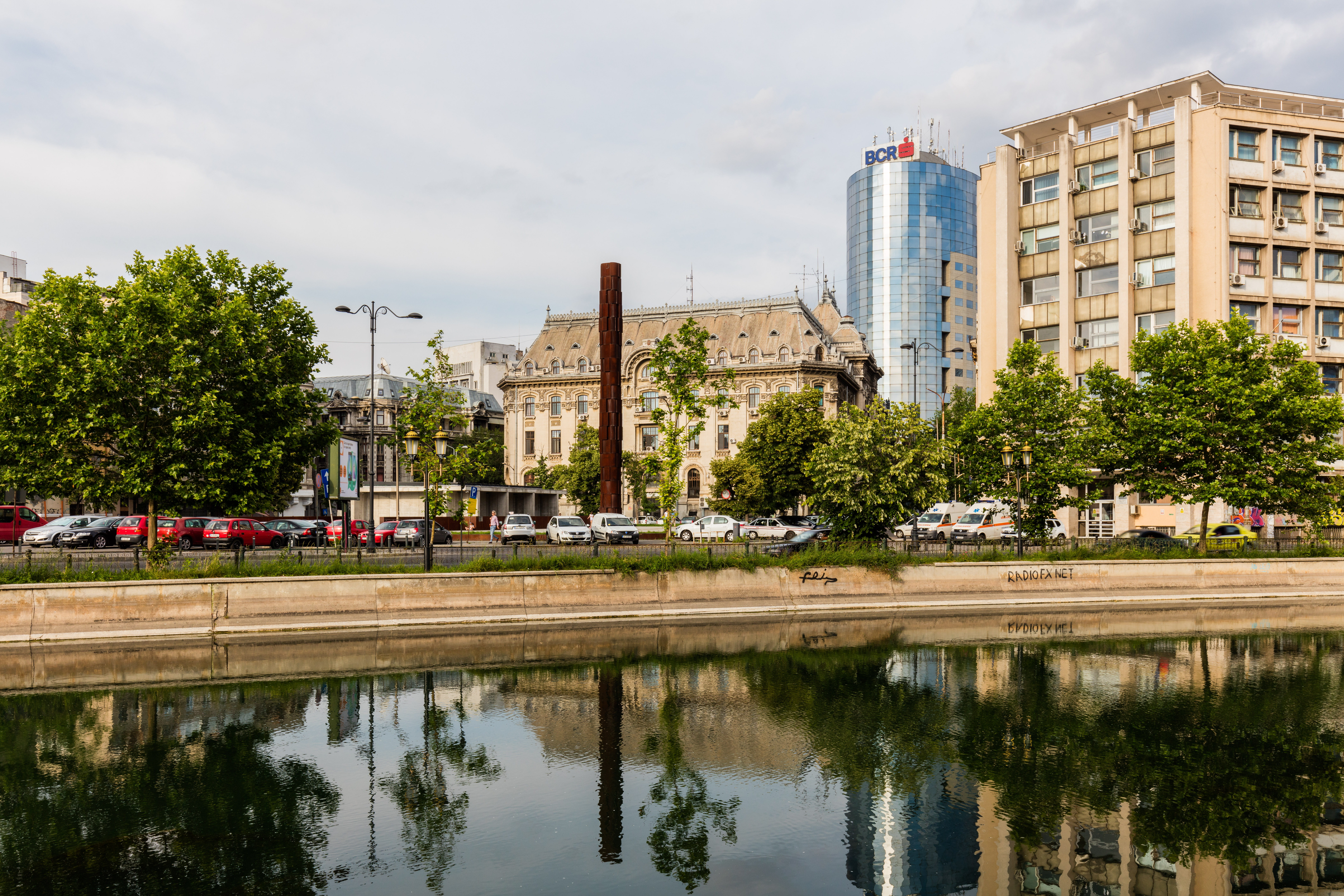 Dambovita river, Bucharest, Romania